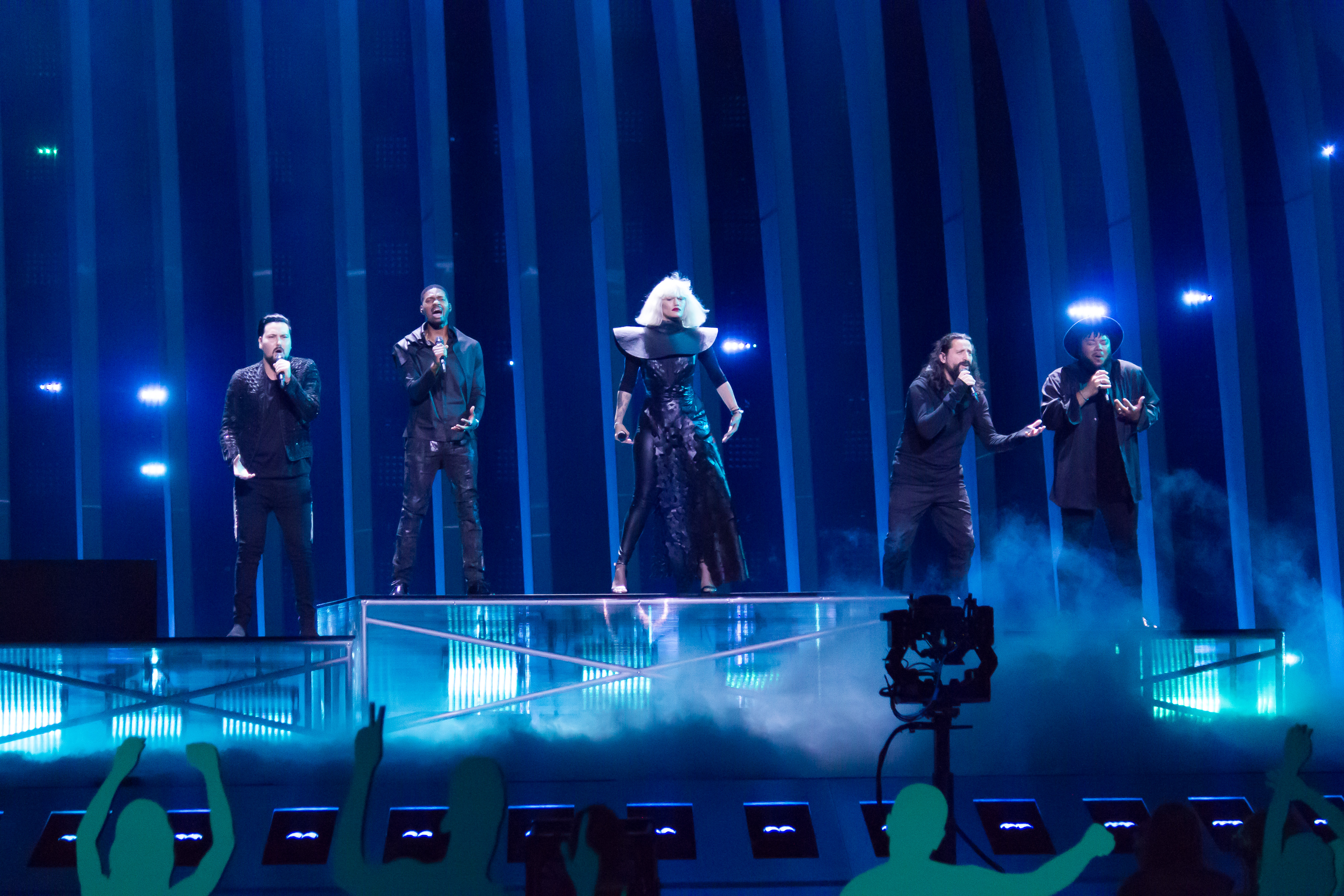 EQUINOX representing Bulgaria with the song "Bones" during a rehearsal before the first semi final of the Eurovision Song Contest 2018 in Lisbon.